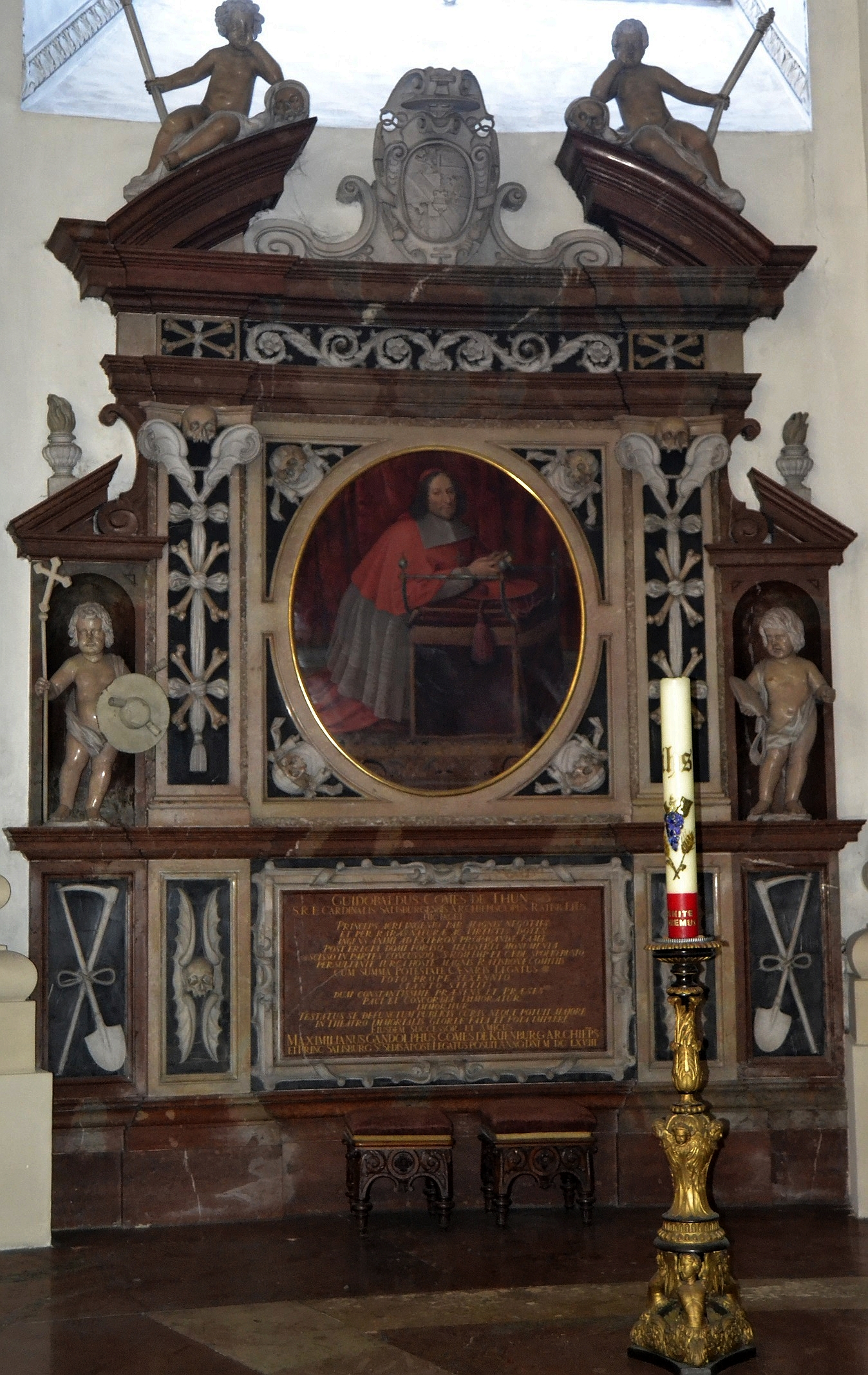 Salzburg Cathedral - cenotaph Archbishop Guidobald von Thun-Hohenstein